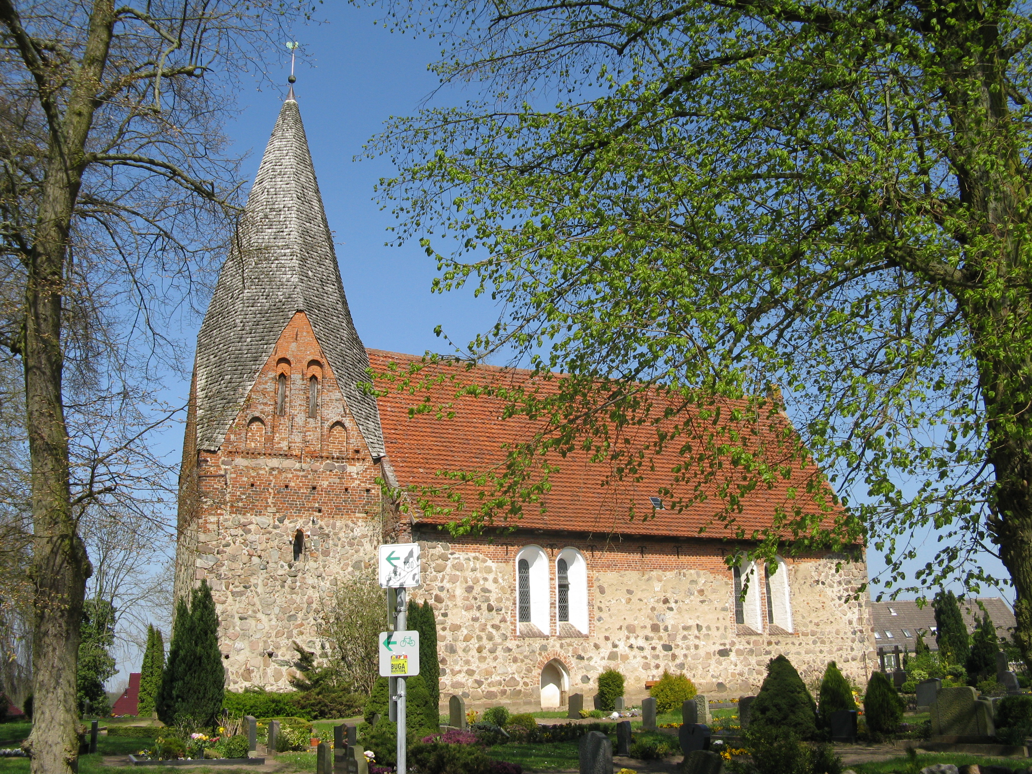 Church in Witzin, disctrict Parchim, Mecklenburg-Vorpommern, Germany